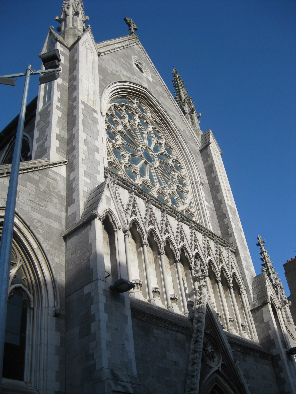 Church of St. Saviour, Dublin, Ireland